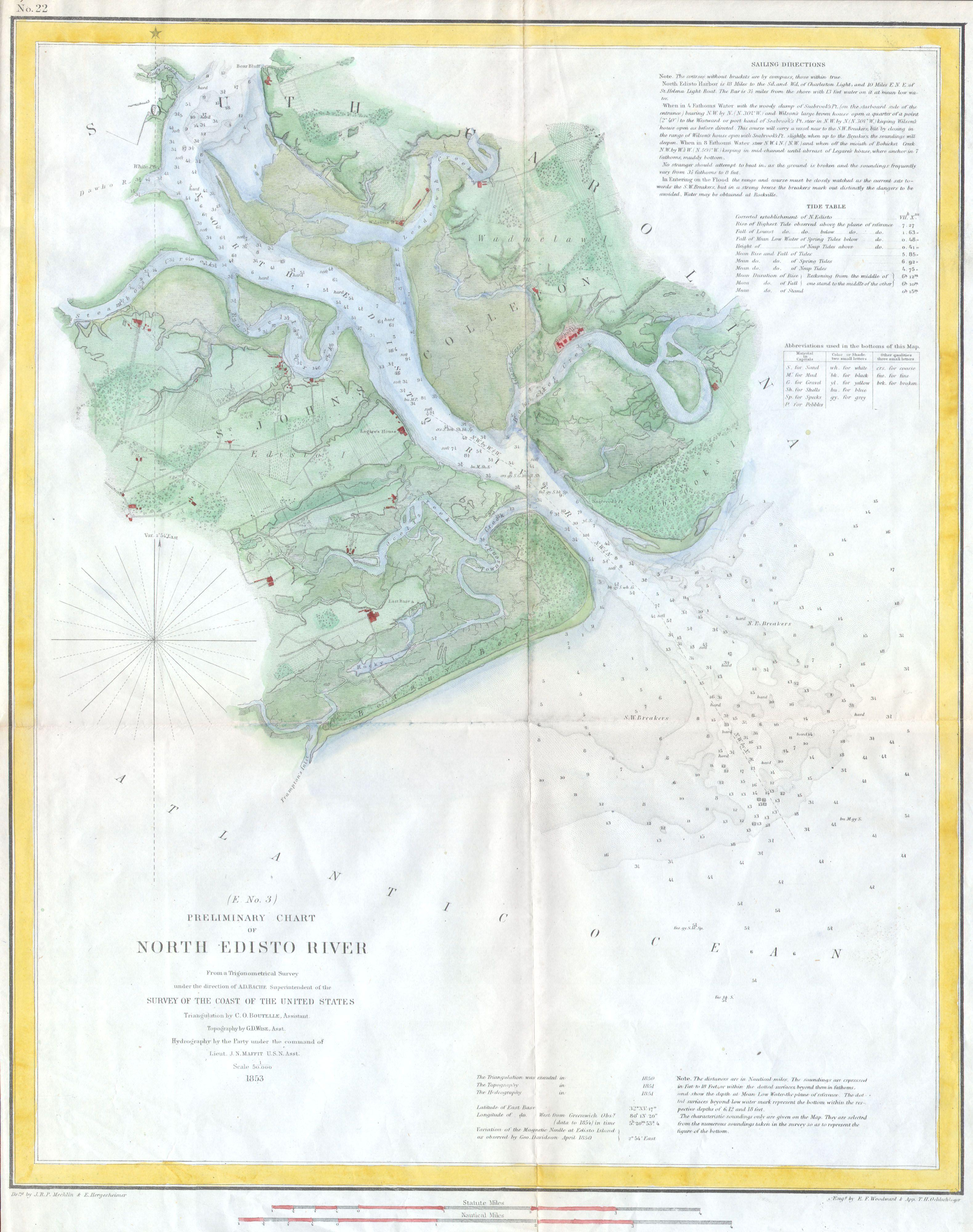 A rare hand colored 1853 costal chart of South Carolina’s North Edisto River. Features St. John’s Colleton, Seabrook’s Island, Legaro’s House, the town of Rockville, and numerous plantations and private farms. Includes detailed sailing instructions, depth soundings, and impressive inland detail of the region. Today the North Edisto River is a popular vacation destination. Triangulations were accomplished by C. O. Boutelle, topography by G.D. Wise and hydrography by J. N. Maffit. Published under the supervision of A. D. Bache for the 1853 Report of the Superintendant of the U.S. Coast Survey.